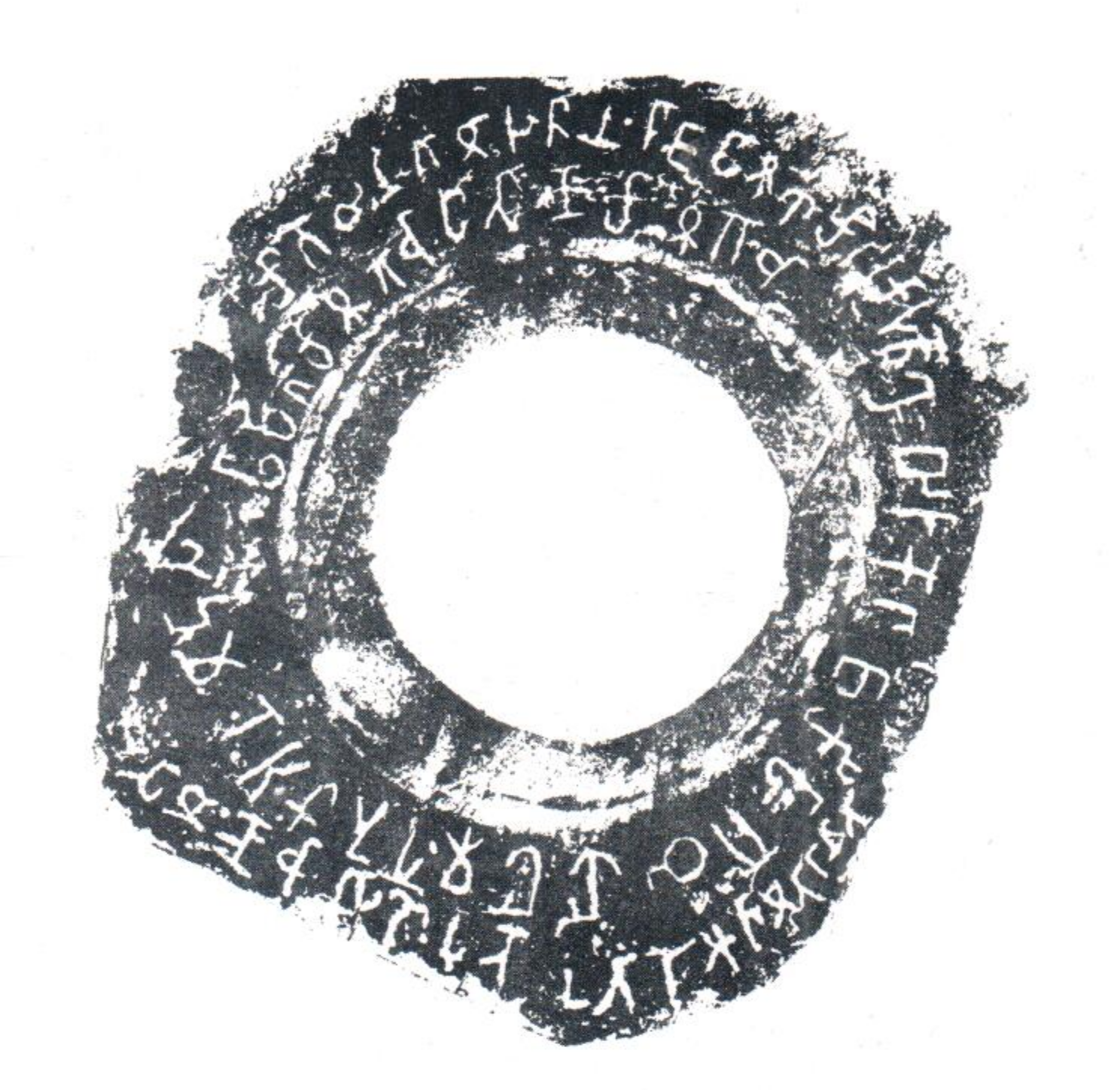 The 4th stone inscription excavated at Bhattiprolu believed to be from 3rd century BCE.